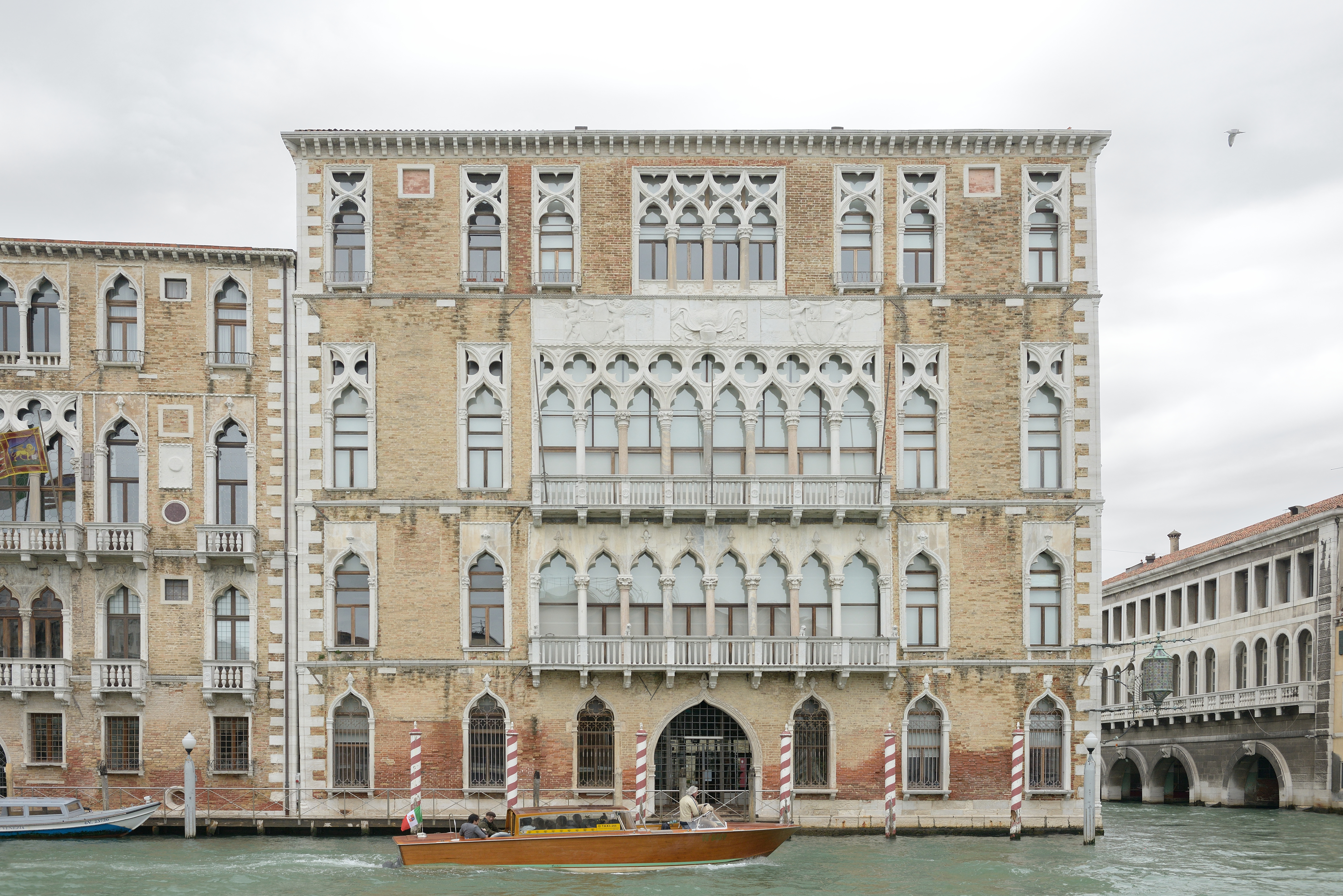 Ca' Foscari in Venice. Facade on Grand Canal.